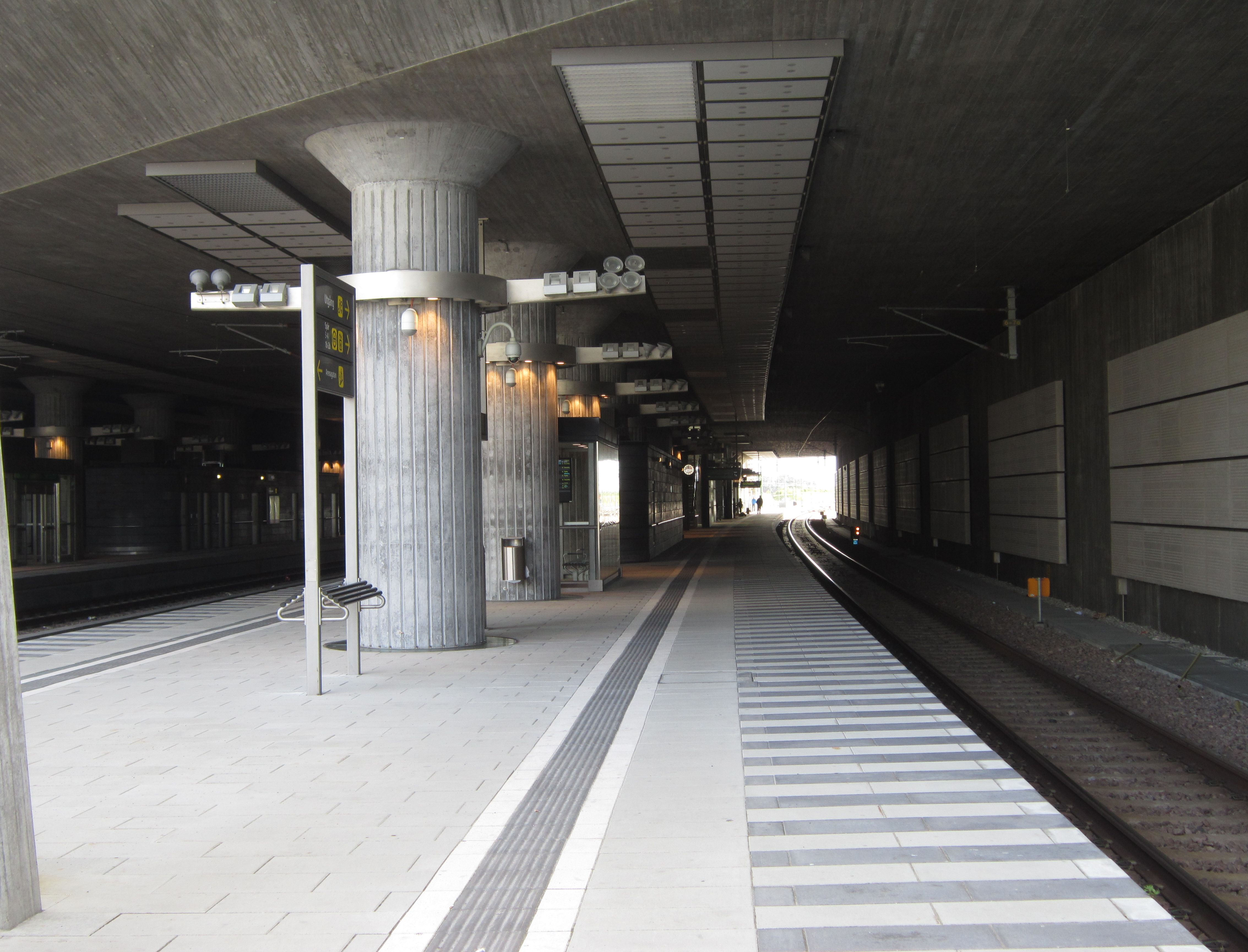 Hyllie railway station platforms